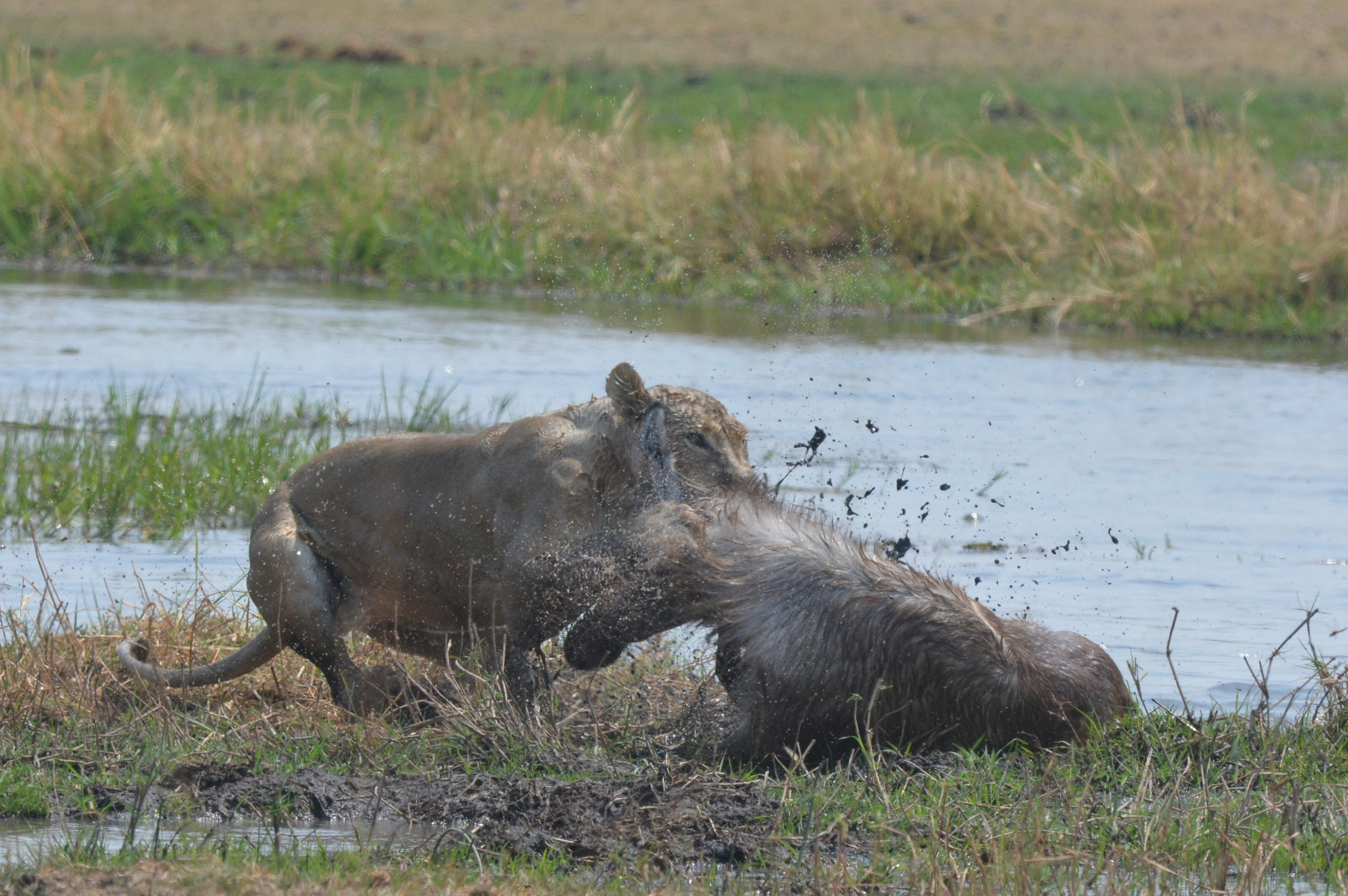 Picture taken in Botswana, in the Khwai area (Moremi Game Reserve) in August 2019.